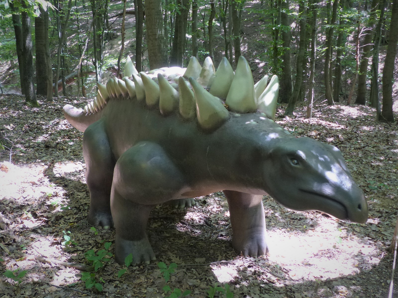 Hungarosaurus tormai. Taken on the 11th of July, 2019. Budakeszi Vadaspark, Dínó Park.